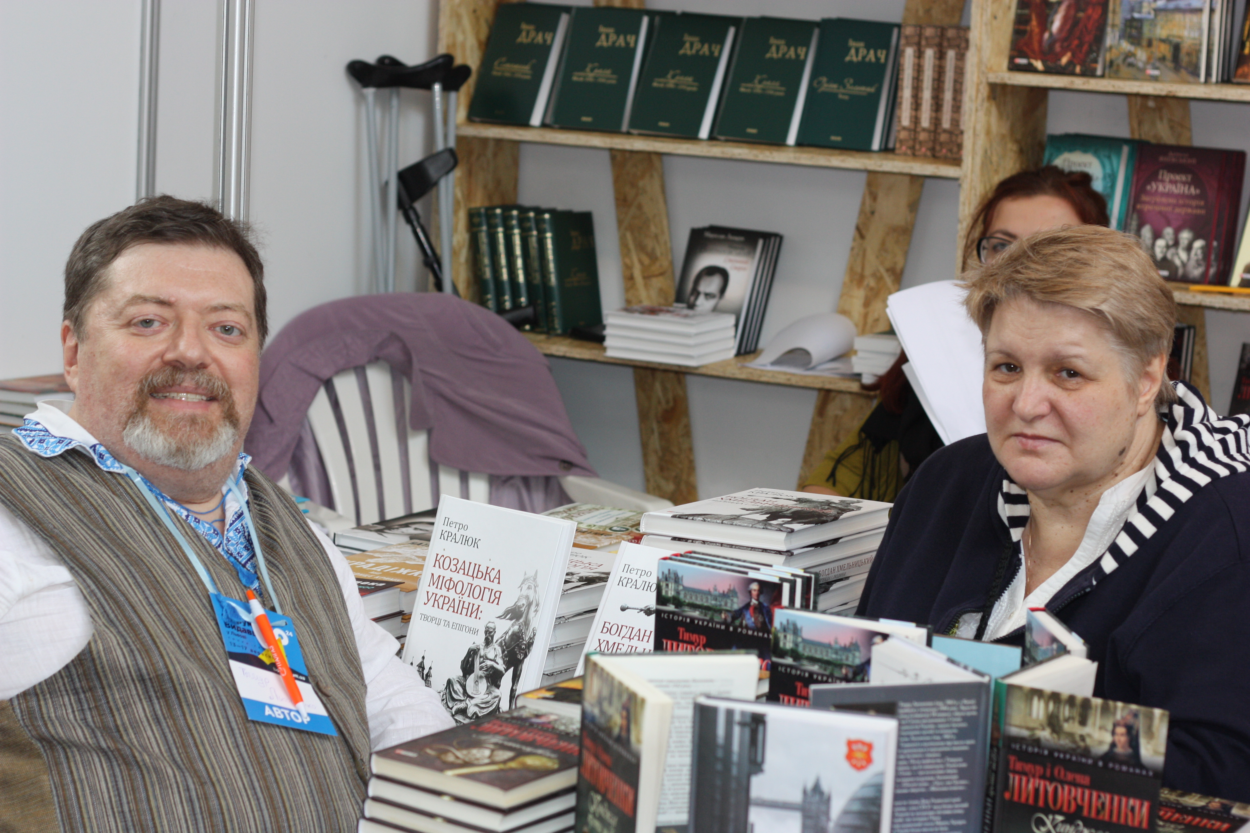 Publishers' Forum in Lviv 2017